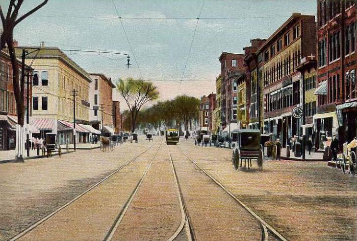 Elm Street looking north, Manchester, NH; from a c. 1905 postcard.